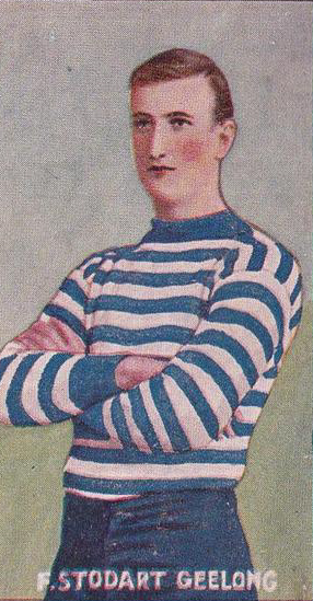 Cigarette card of Frank Stodart from the Sniders & Abrahams 1907 series